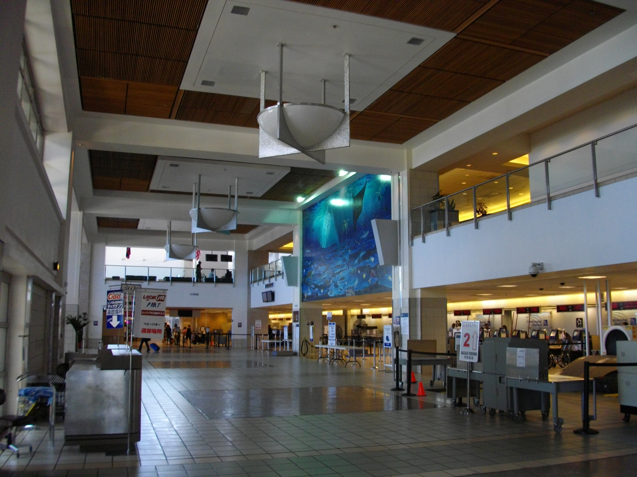 Guam International Airport Ticket Counters